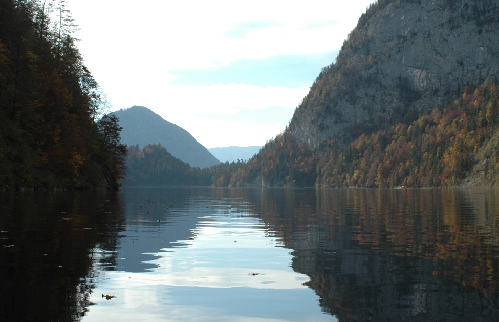 Lake Toplitz seen from SSW.